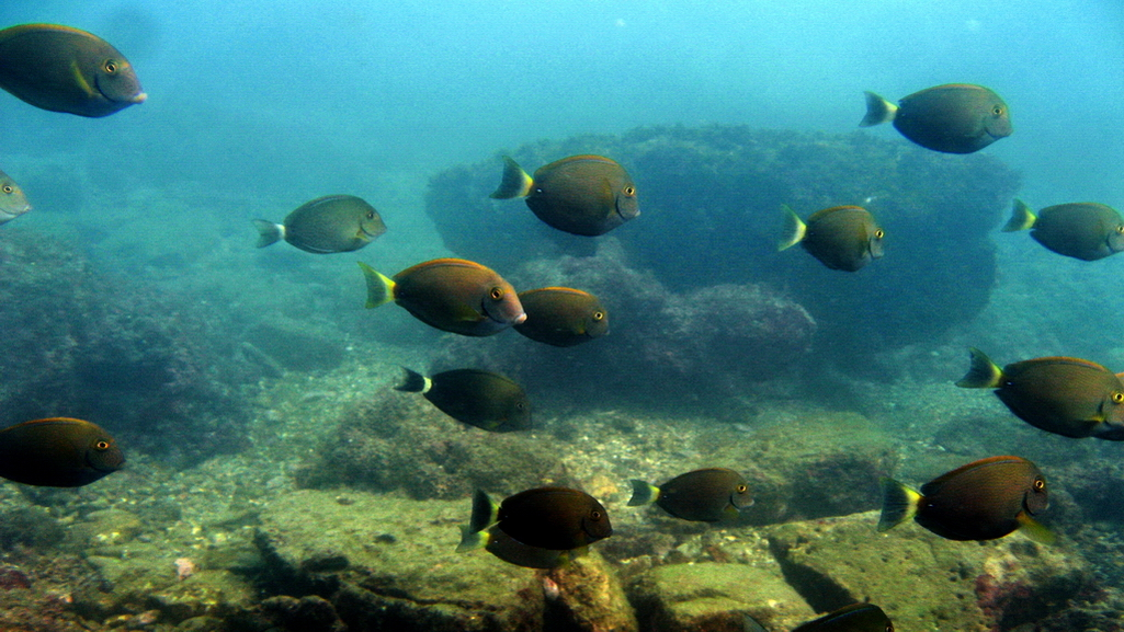 A school of juvenile Ornate surgeonfish cruising around the shallow water of Waimushan, Kee-Lung, TAIWAN. This kind of surgeonfish is very common and can be easily found in all the coral reef area of TAIWAN